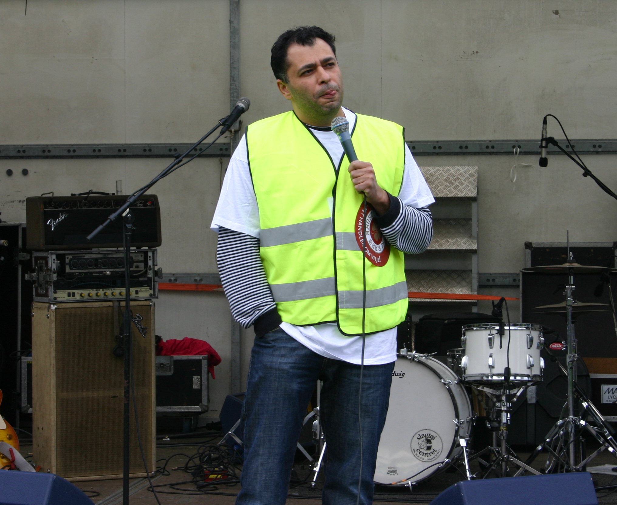 Omar Marzouk is a danish Stand up comedian from Denmark.This picture is taken under a public event on 1. May celebrations (International Workers Day ) at Stejbjerganlægget in Kolding Denmark.